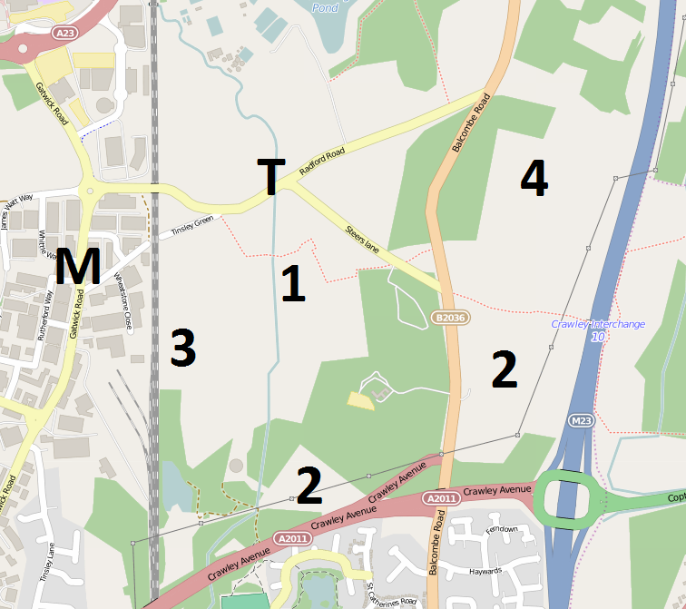 An annotated map of the "North East Sector" of the borough of Crawley, England, which with effect from 2014 is being developed as a residential neighbourhood called Forge Wood. Derived from OpenStreetMap (permalink). Annotations denote phases of development (1–4); M = Manor Royal Industrial Estate; T = Tinsley Green (existing hamlet). Annotations based on North East Sector "Next Steps" document.